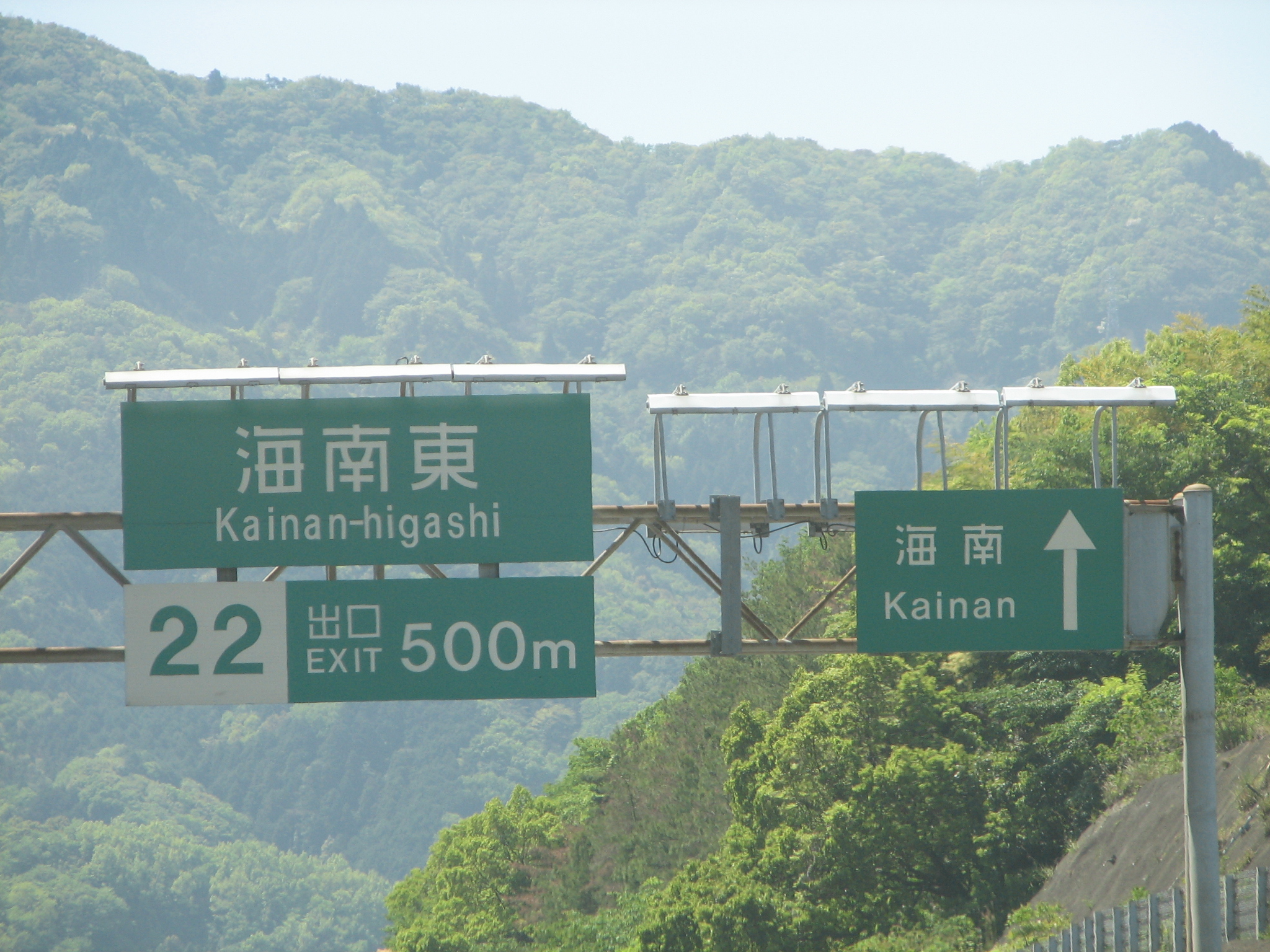 Kainan-higashi IC